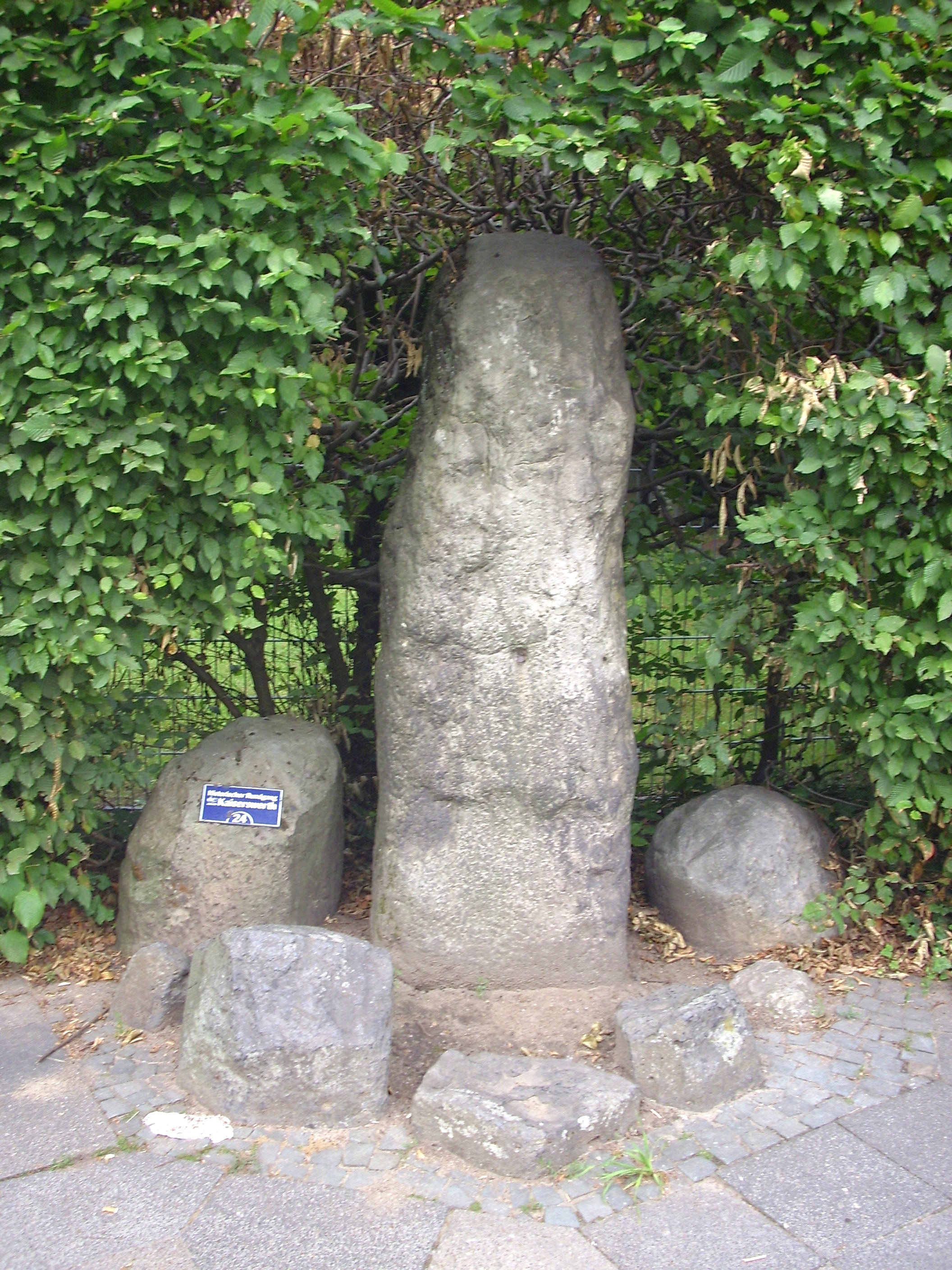 The Menhir of Kaiserswerth is, except for some findings in the ground, the oldest historical monument of Kaiserswerth and Düsseldorf (about 2000 till 1500 B. C.).